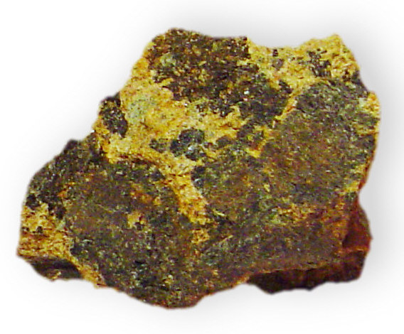 Mineral of South Dakota These mineral images are free to use how you wish.